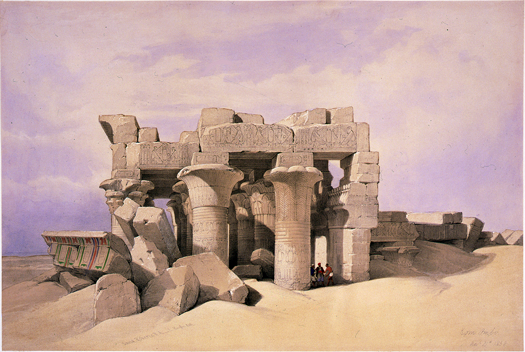 Picture of a print from David Roberts' Egypt & Nubia, issued between 1845 and 1849. Kom Ombo.